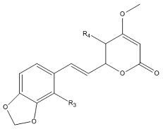 The structure of the seventh class of kavalactones, to be used on the Kavalactones page. Drawn in ChemDraw 10.0 by Yidele, July 2007.